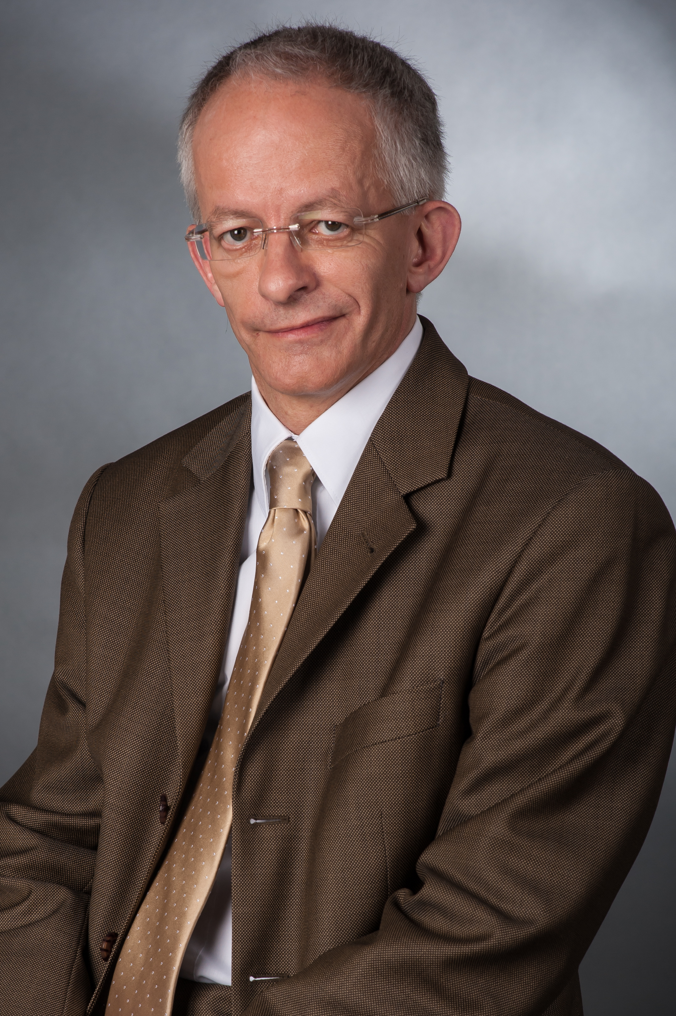 Wikipedia im Landtag – Niedersachsen 17. bis 18. April 2013 in Hannover Personality rights warningAlthough this work is freely licensed or in the public domain, the person(s) shown may have rights that legally restrict certain re-uses unless those depicted consent to such uses. In these cases, a model release or other evidence of consent could protect you from infringement claims.